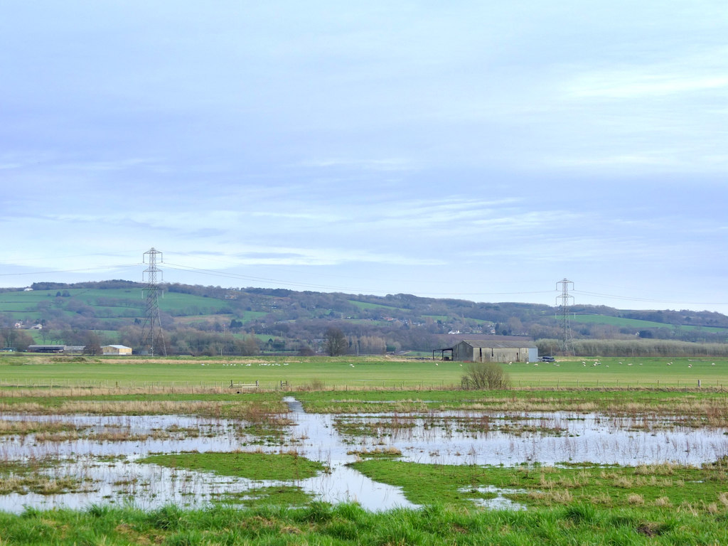 Between Low Meadows and Marsh Moss